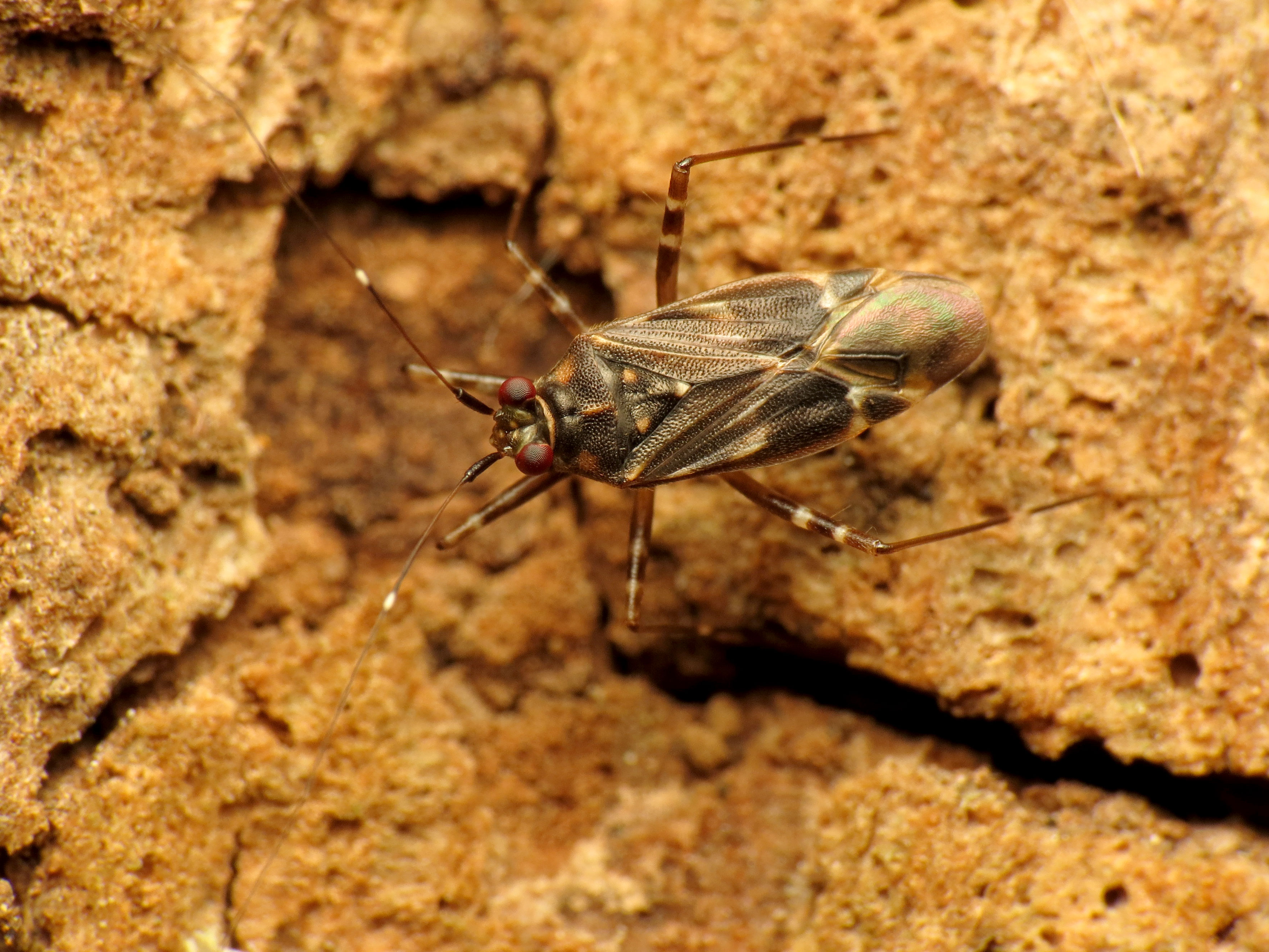 Cylapus tenuicornis. Rock Creek Park, Washington, DC, USA